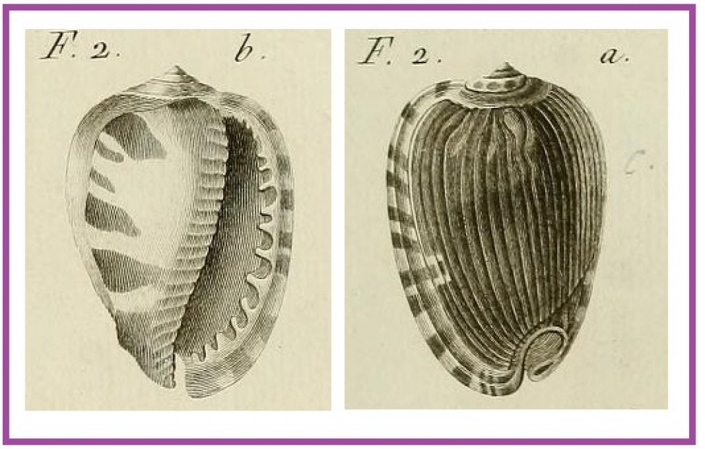 Illustration of the seashell Cypraecassis testiculus (Linnaeus, 1758)[1] taken from its Encyclopédie Méthodique.